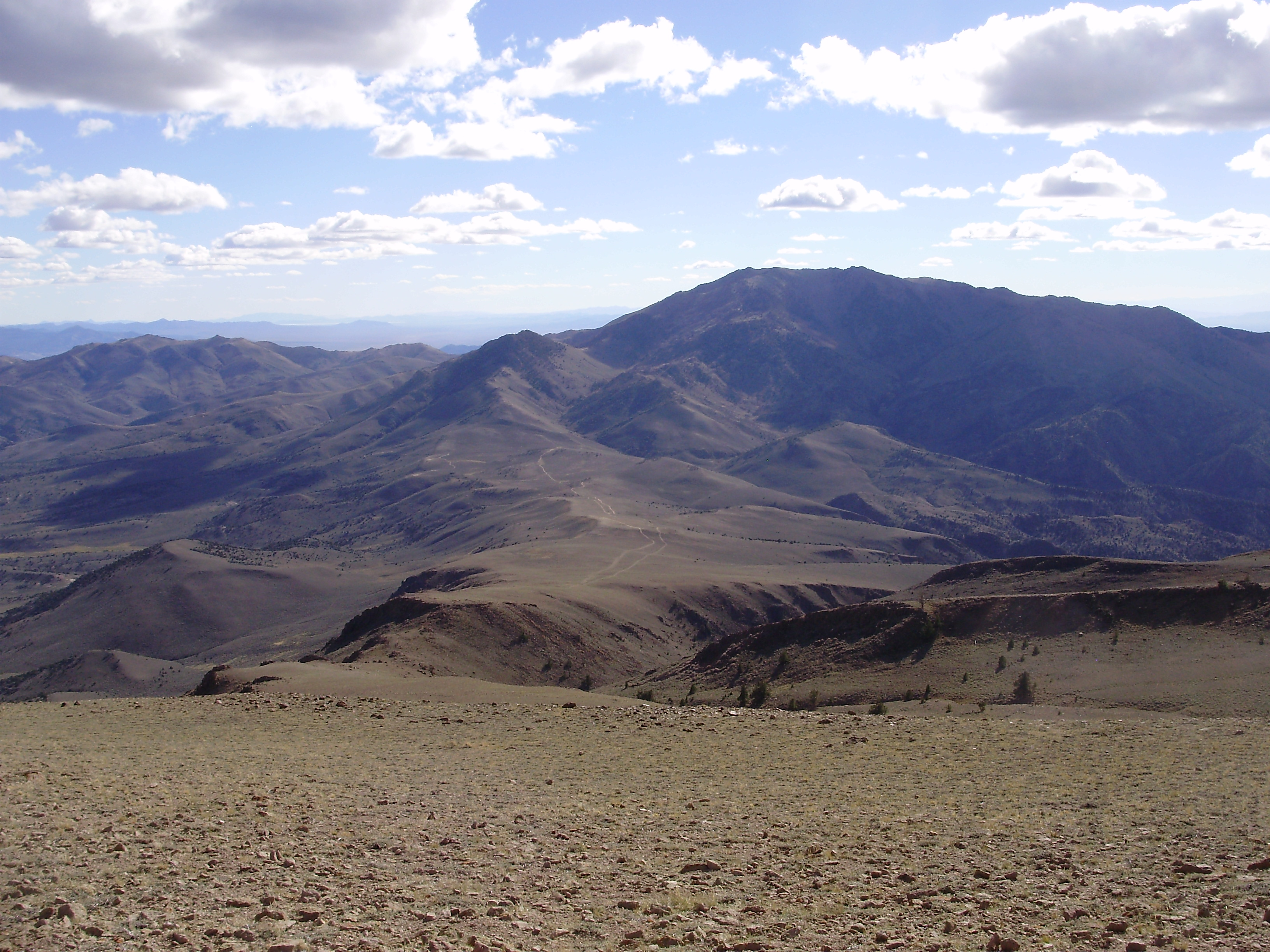 View south-southwest towards Jefferson Summit from about 10560 feet along the trail between Jefferson Summit and the south summit of Mount Jefferson, Nevada